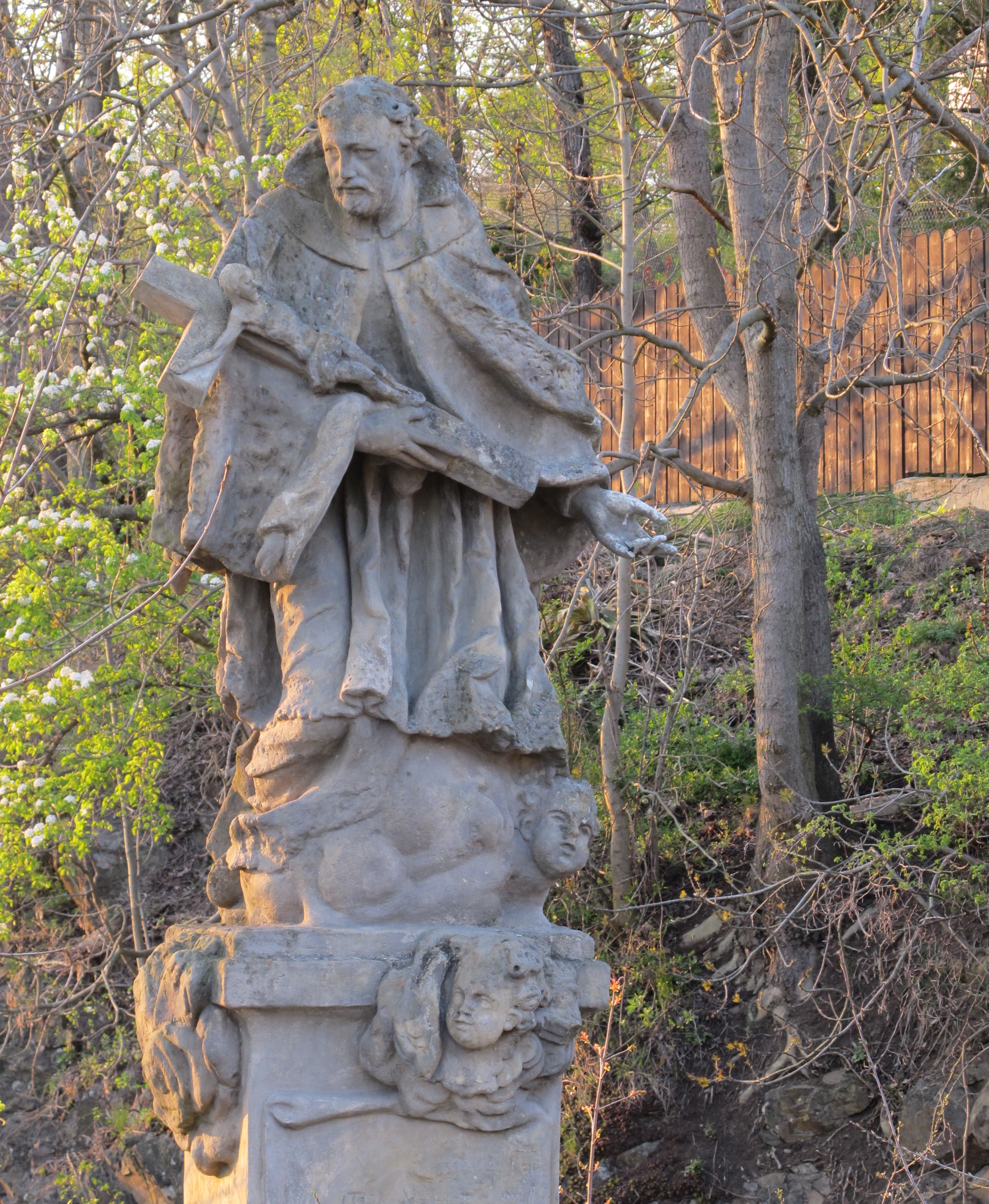 St. John Statue in village Voznice, central part of Bohemia